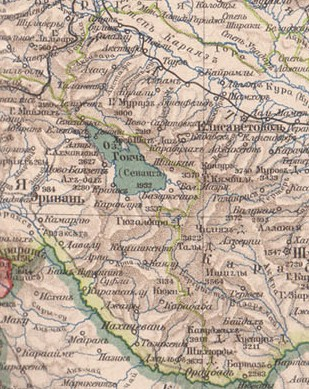 Part of the map pf Caucasus in 1896 (Erivan)